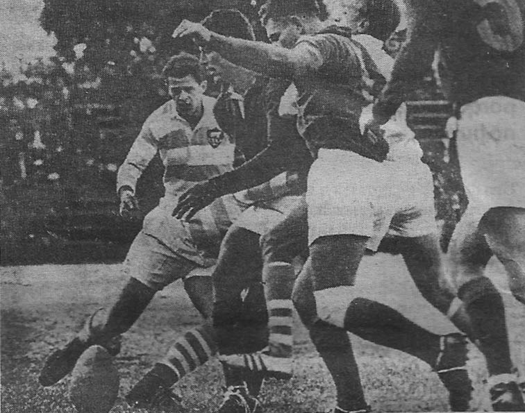 The Argentina national rugby union team "Los Pumas" playing Western Transvaal during the tour on South Africa